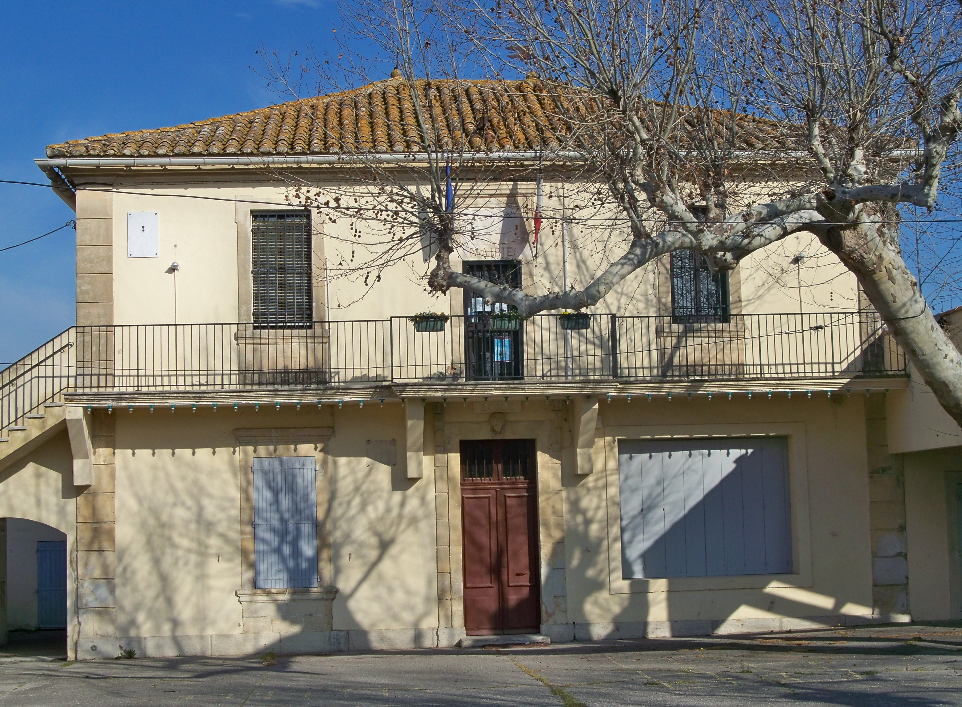 Town hall of Mas Blanc des Alpilles (13), France